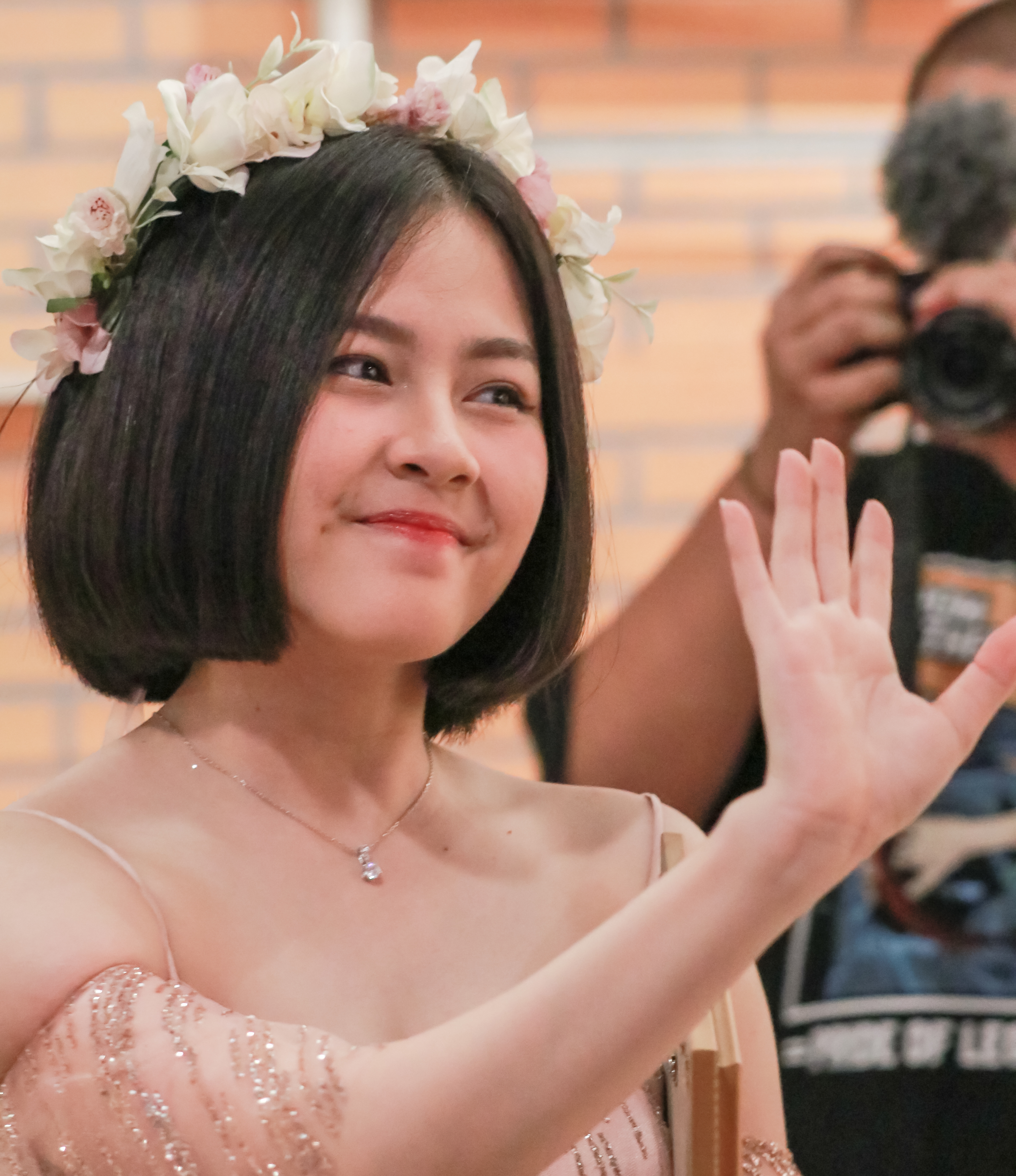 Hasyakyla Utami Kusumawardhani on 10 November 2019